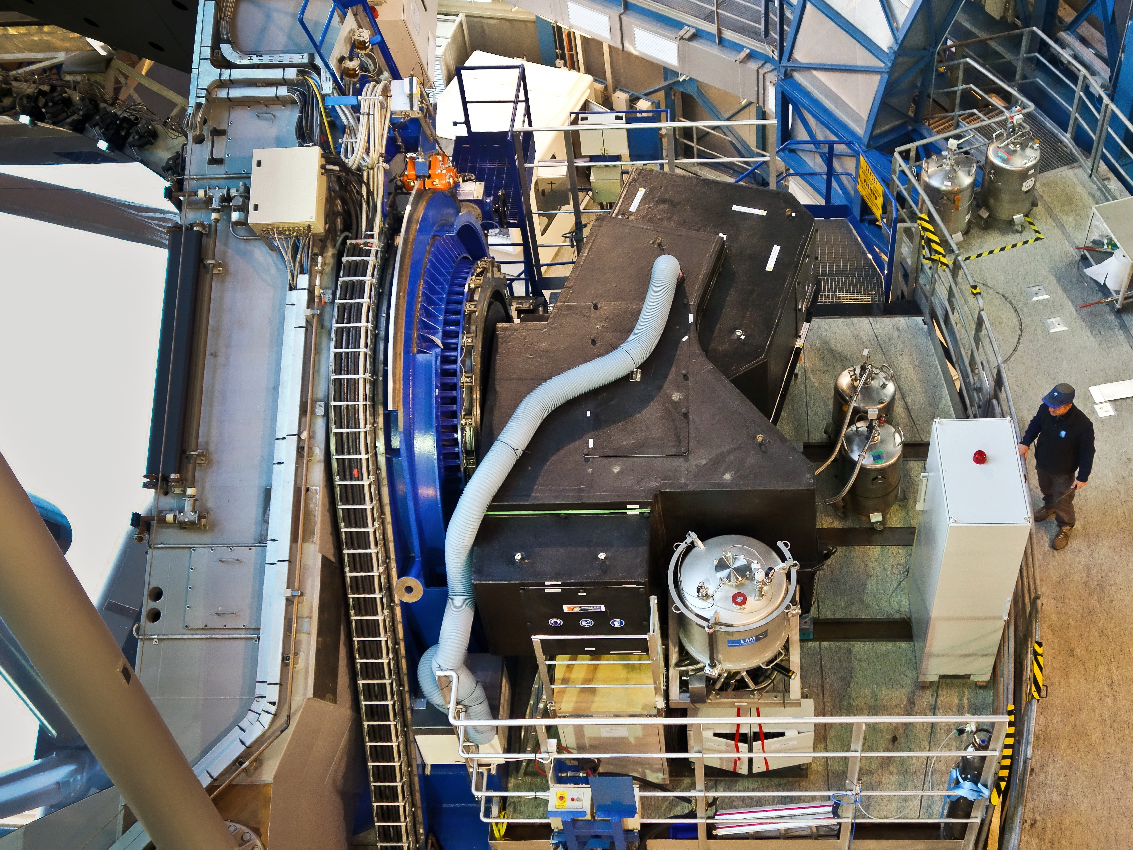 The SPHERE instrument is shown shortly after it was installed on ESO’s VLT Unit Telescope 3. The instrument itself is the black box, located on the platform to one side of the telescope.